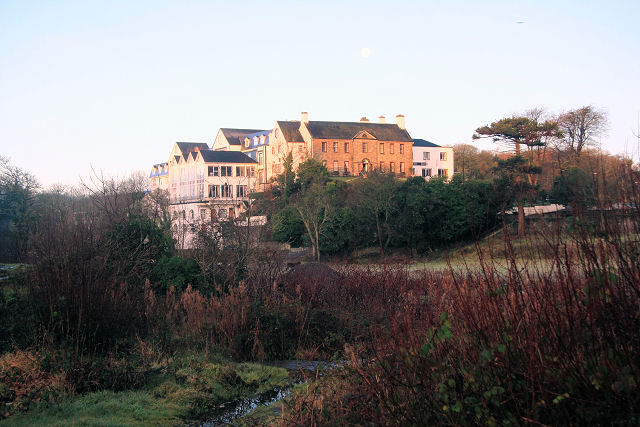 The Falls Hotel, Ennistymon This large hotel was once known as Ennistimon House, built in the 18th century. It was owned by various people, including William MacNamara of Doolin. For a period Dylan Thomas lived here. It was converted to an hotel in 1936. The current owners, Dan and Eileen McCarthy, purchased the then 20-bedroom hotel in 1986. The hotel now boasts 140 bedrooms, a banqueting hall and a spa.